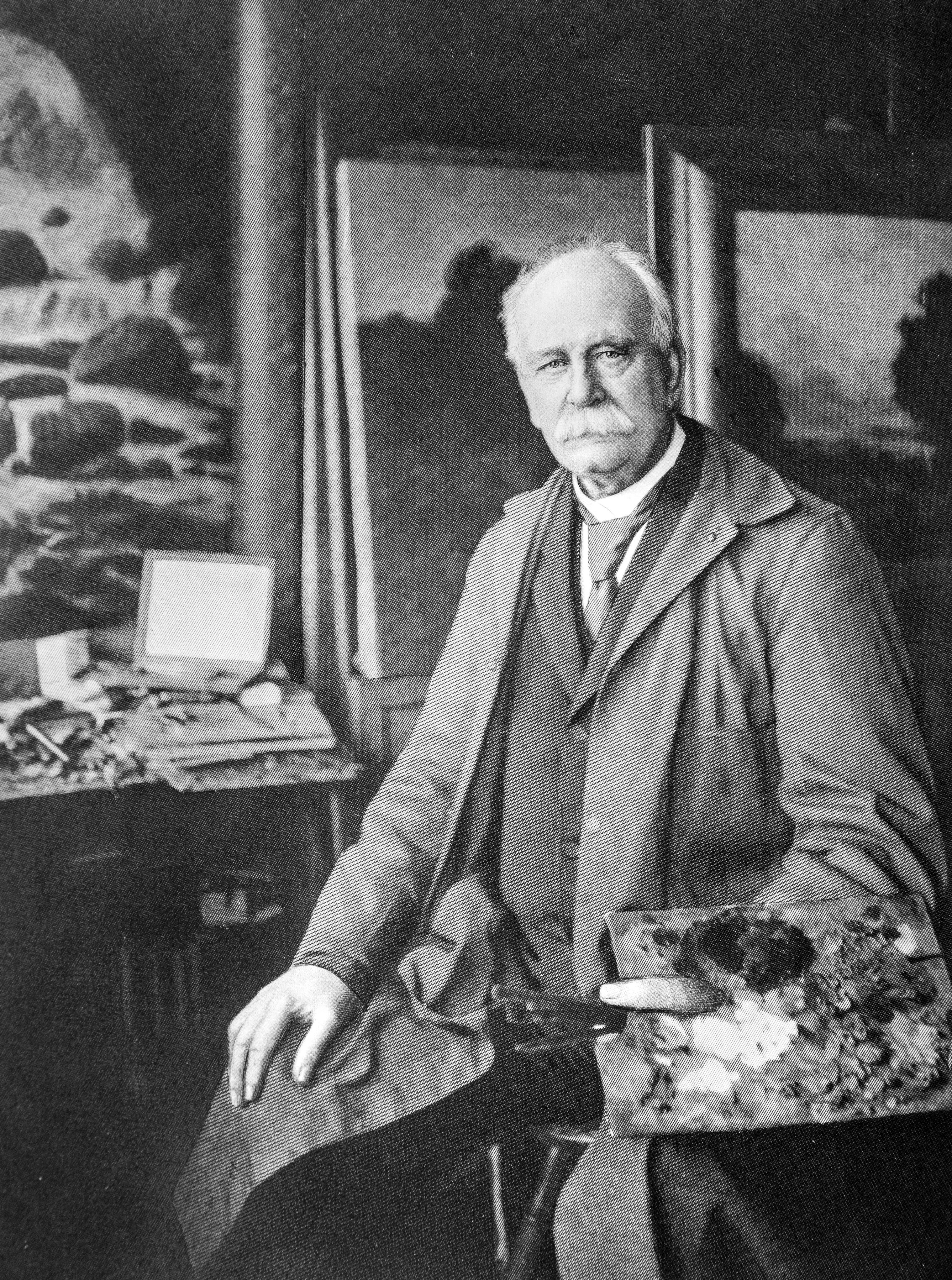 George William Whitaker (1841-1916), Rhode Island painter. Photo from Memorial Encyclopedia of the State of Rhode Island, 1916.